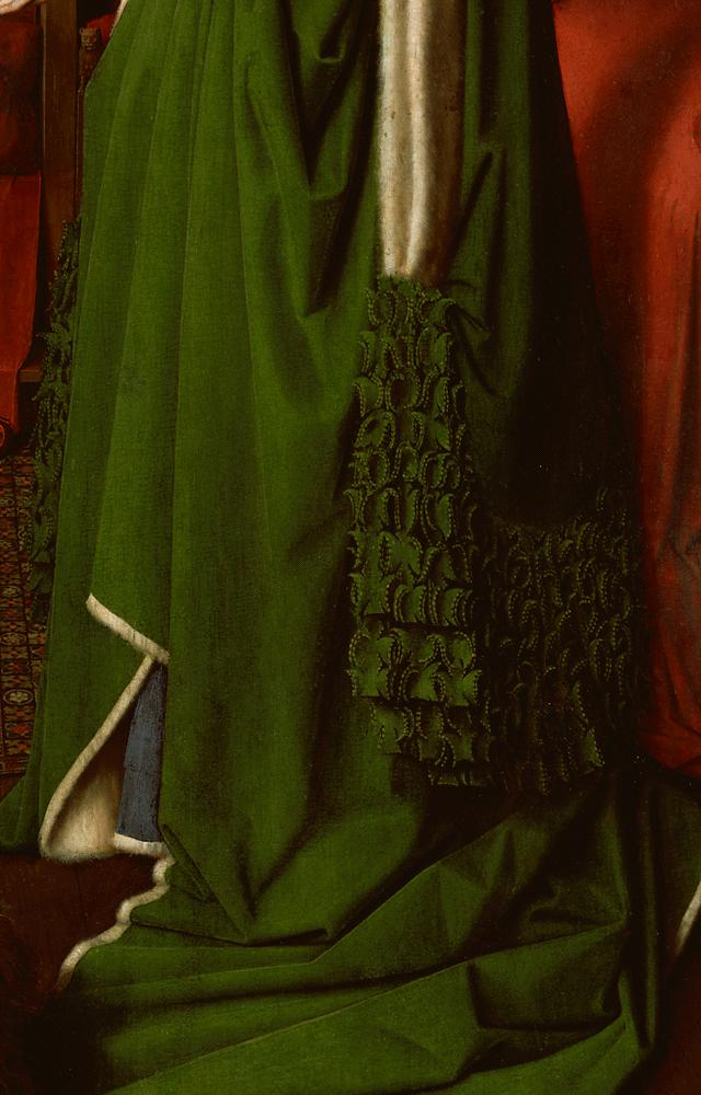 Crop of the painting The Arnolfini Portrait Artist Jan van Eyck (circa 1390–1441) Alternative namesJean van Eyck, Johannes van EyckDescription Southern Netherlandish painter and draughtsman Date of birth/deathcirca 1390before 9 June 1441Location of birth/deathMaaseikBrugesWork locationThe Hague (1422), Bruges (1425), Lille (1425–1428), Bruges (1431–1441)Authority control VIAF: 54156267 LCCN: n50048855 GND: 118531557 BnF: cb119389315 ISNI: 0000 0001 2101 4186 WorldCat WP-Person Title